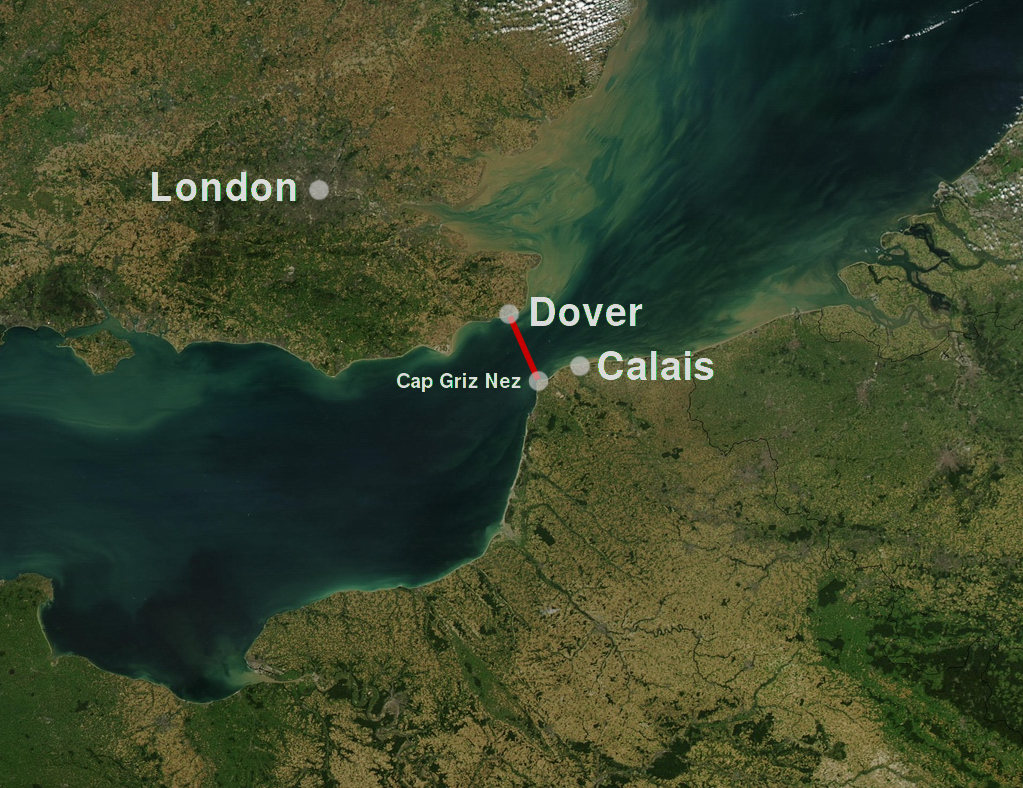 Channel swimming route Dover–Cap Griz Nez